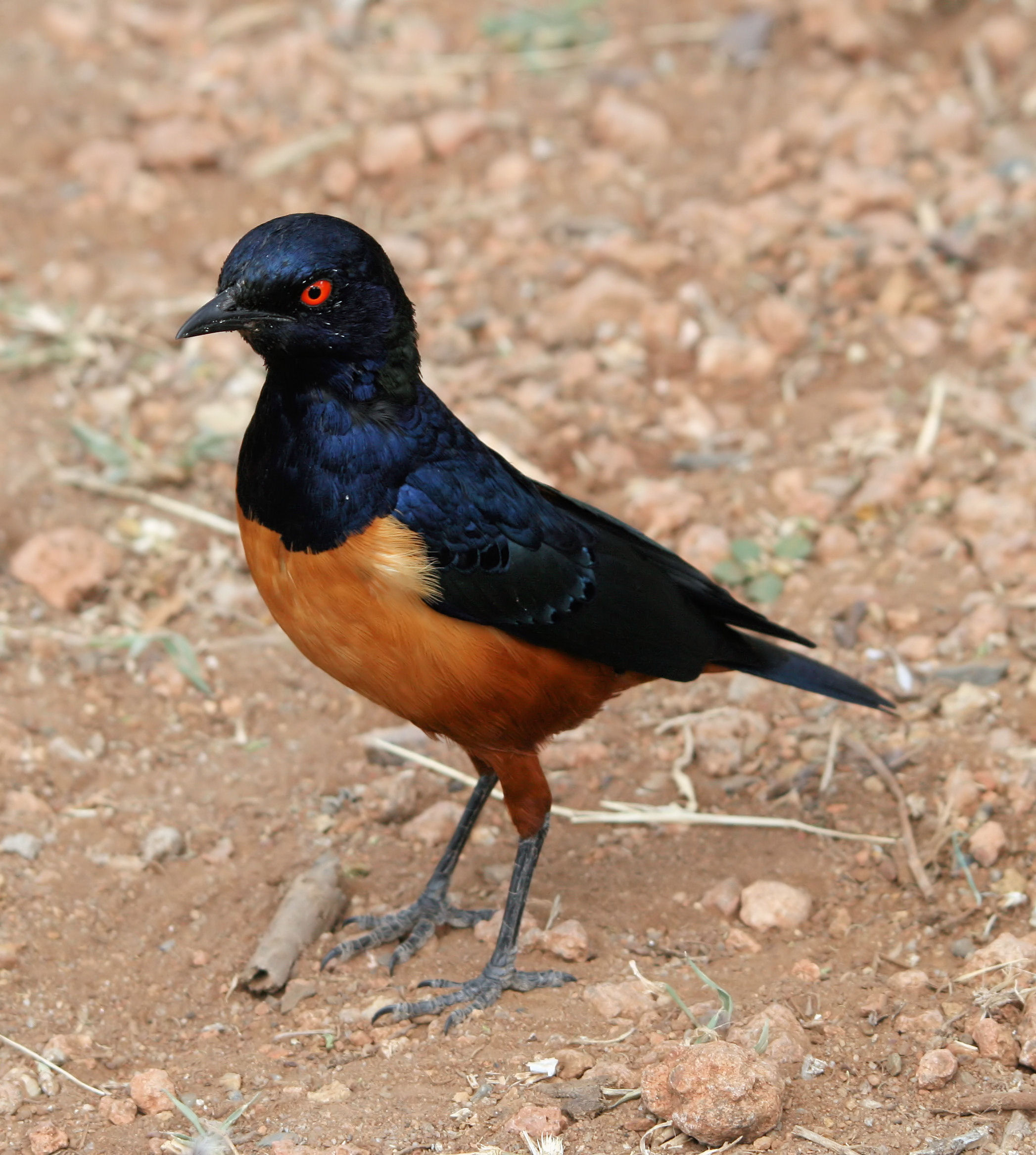 Hildebrandt´s Starling (Lamprotornis hildebrandti), picture taken at Serengeti Nationalpark, Tanzania